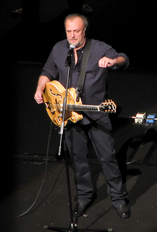 Italian singer-songwriter Ivano Fossati performing in Milan in 2012 at the Teatro degli Arcimboldi